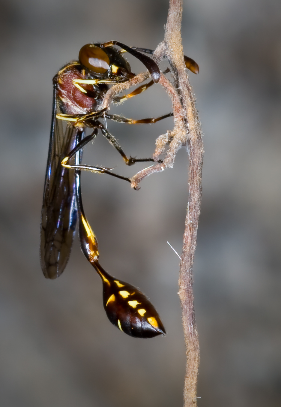 Stenogastrinae wasp. A female of Parischnogaster mellyi (photo by David Baracchi).